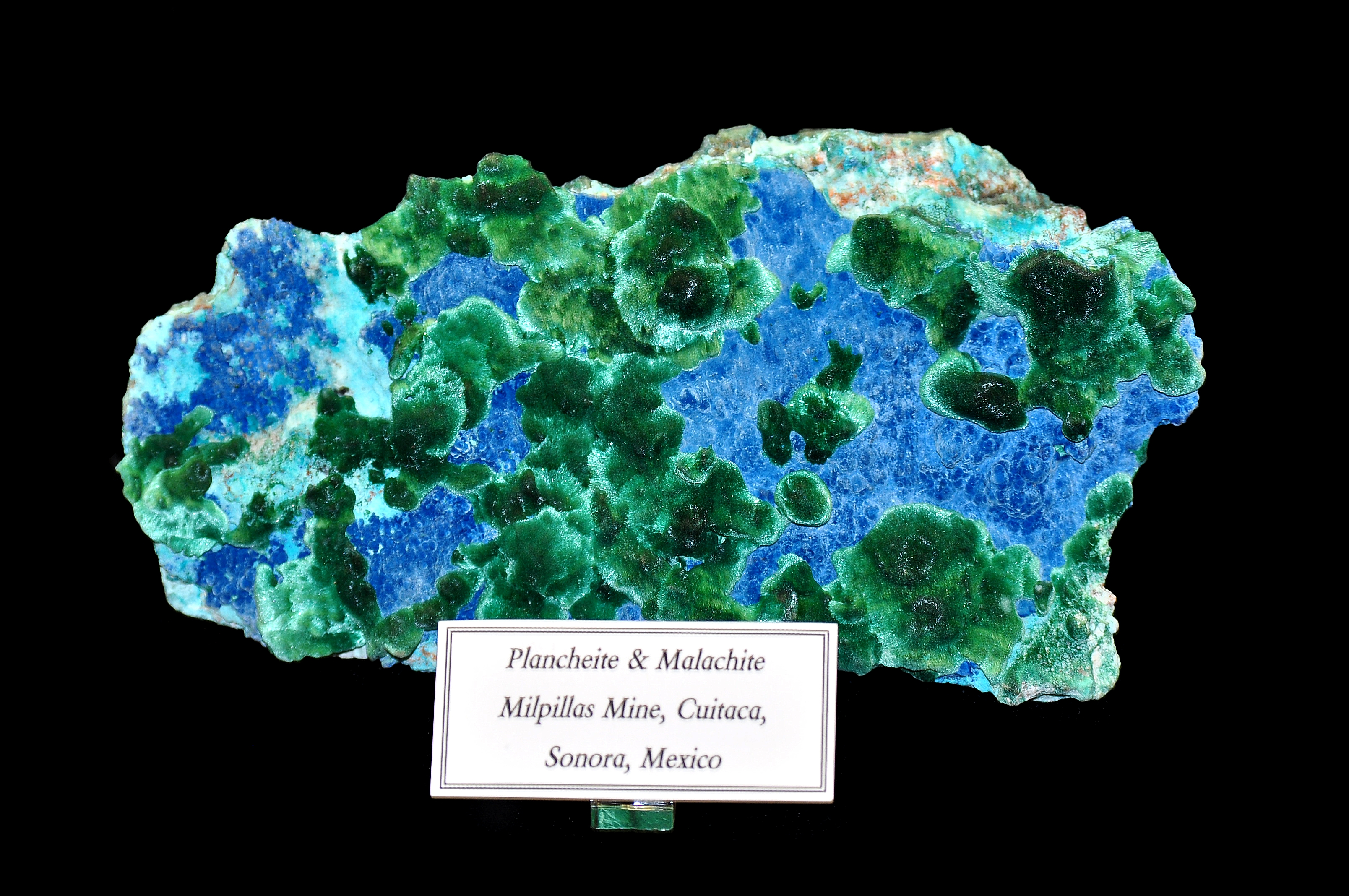 A Malachite and Plancheite crystal found in Milpillas mine in Sonora, Mexico. Taken in Langley, BC.